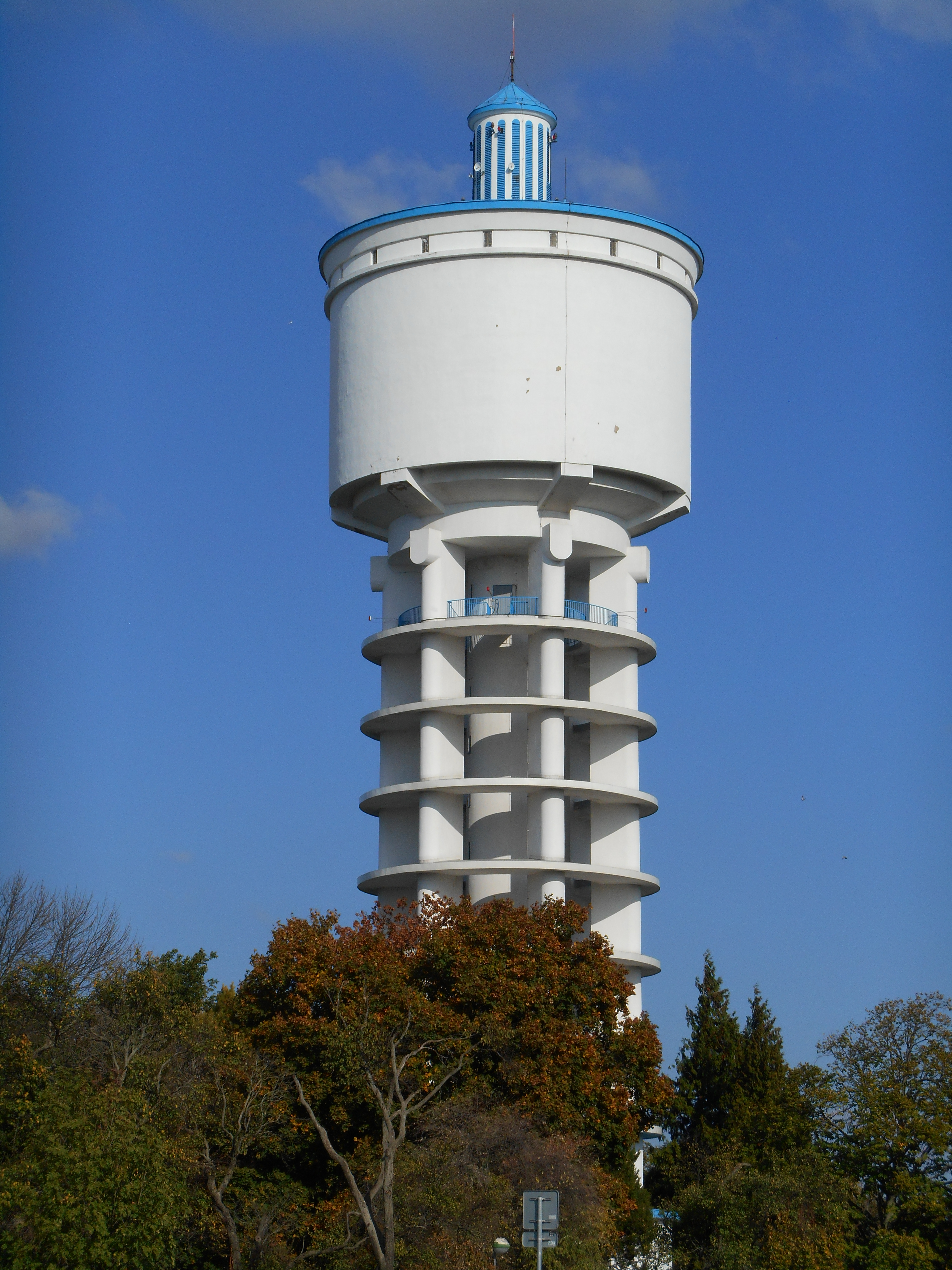 Slovakia - Trnava - Water tank